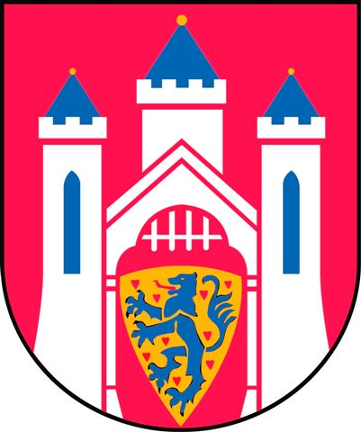 official coat of arms of Lüneburg